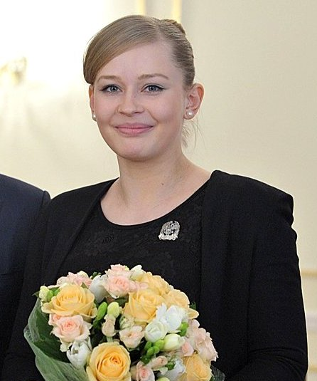 Russian actress Yulia Peresild, winner of the 2012 President’s Prize for young cultural professionals, at the award ceremony.